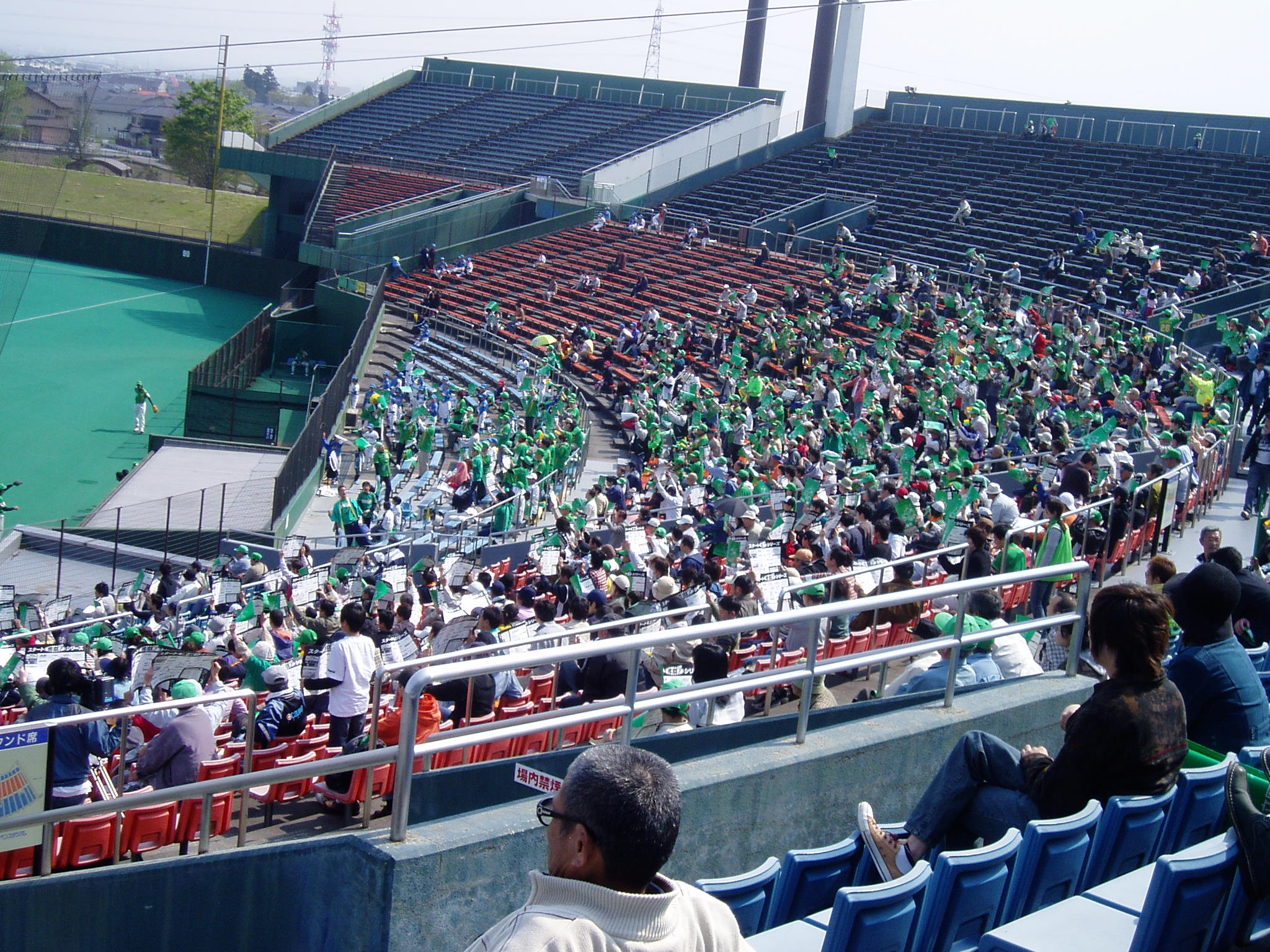 Toyama Thunderbirds Tearing team in Toyama Alpen Stadium.